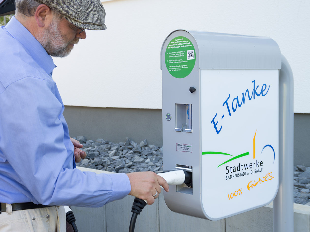 electromobility Bad Neustadt (Germany)